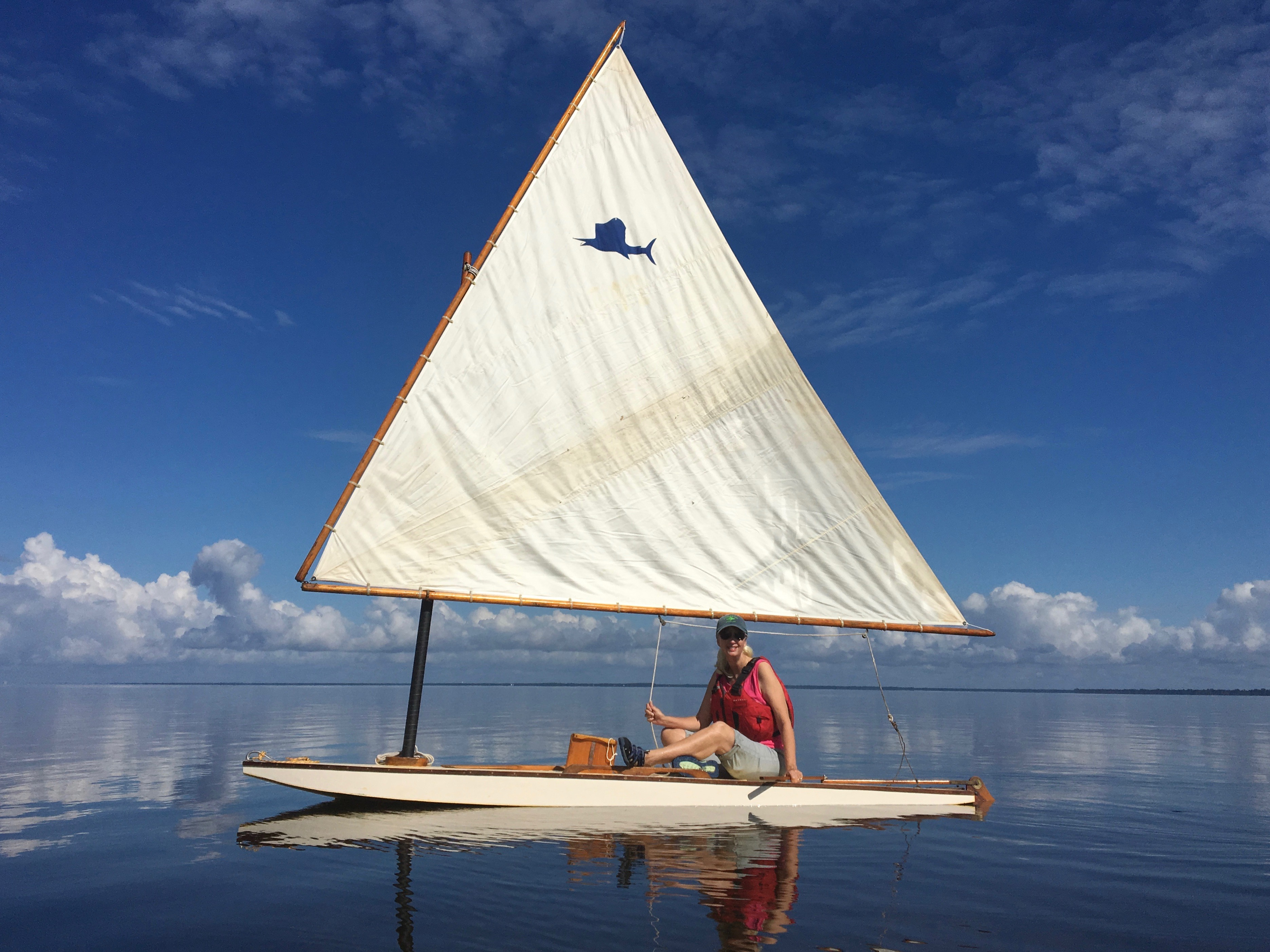 This file shows the 195? Alcort Standard Sailfish sailboat named Winnie under sail in Pensacola Bay with Skipper at the helm.